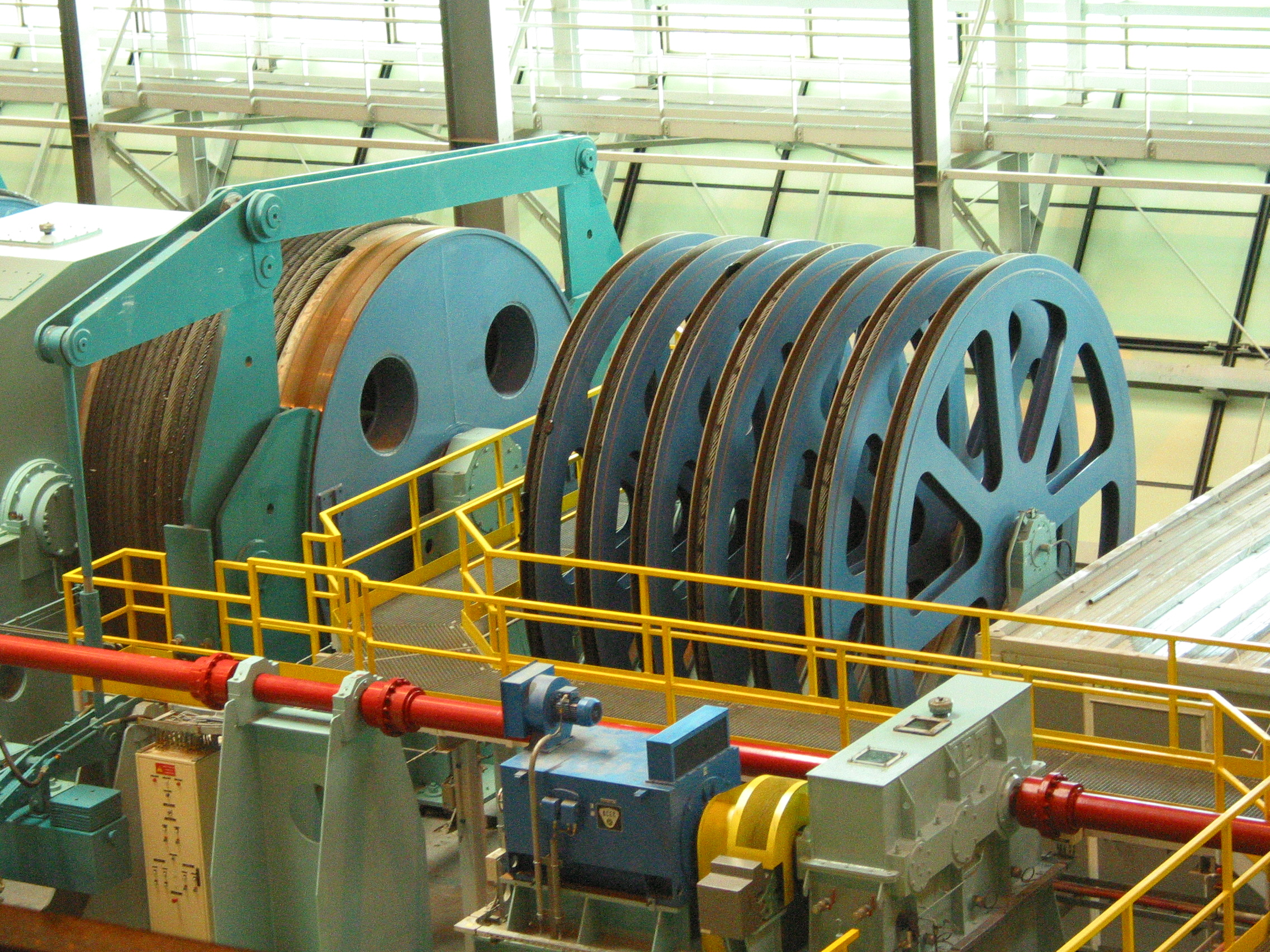 Strépy Bracquegnies (Belgium), the machine room of the ship elevator - big winches and cable roll up drum.